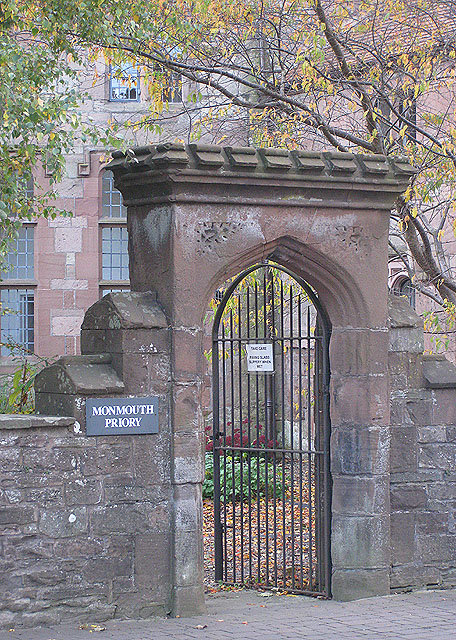 Monmouth Priory Gate The National Lottery's Heritage Fund has been put to good use in the restoration of the priory in order for it to serve as a community building. Now used for lectures, training events, weddings etc, the priory was founded in 1070 AD by Benedictine Monks and its church, now St Mary's Church, was dedicated in 1101 AD. Traditionally the Priory was connected with Geoffrey of Monmouth whose 'History of the Kings of Britain' chronicles the coming of Christianity, the departure of the Romans and the legends of King Arthur. The building has a beautiful oriel window with castellated battlements and is known as Geoffrey's Window. The Priory has a large and specialist collection of theological books , freely available to the Diocese as a resource. Situated in Priory Street, above the River Monnow.